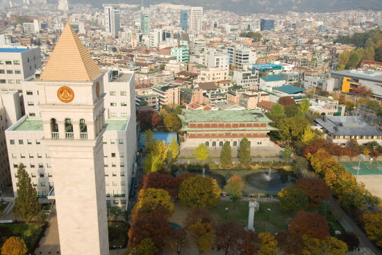 This is a bird's eye view of the Sejong University campus.